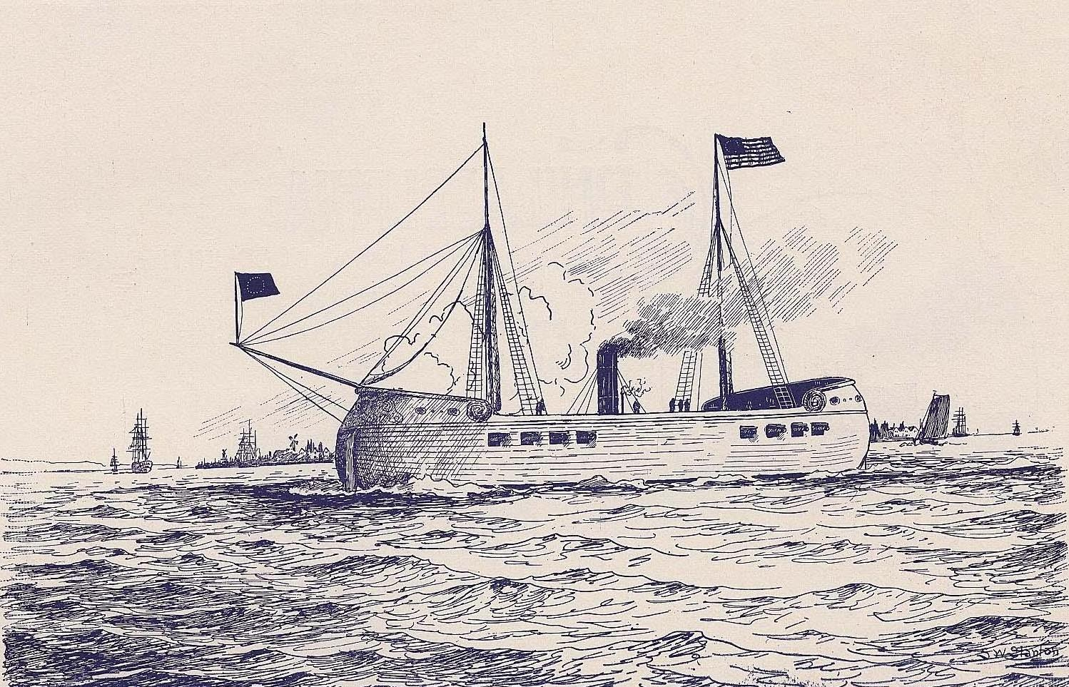 Demologos early American steam warship